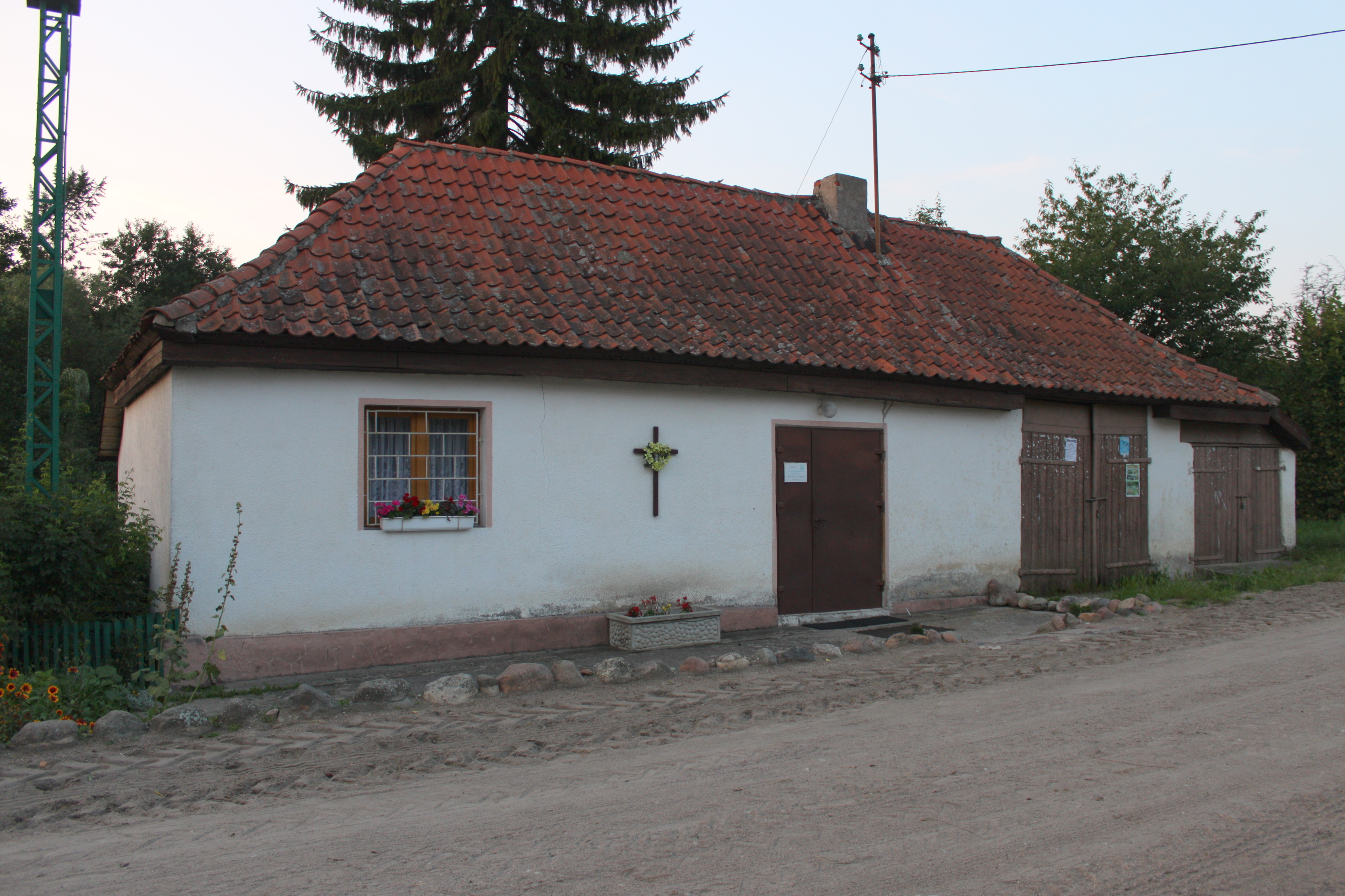 Building in Wierzbowo.